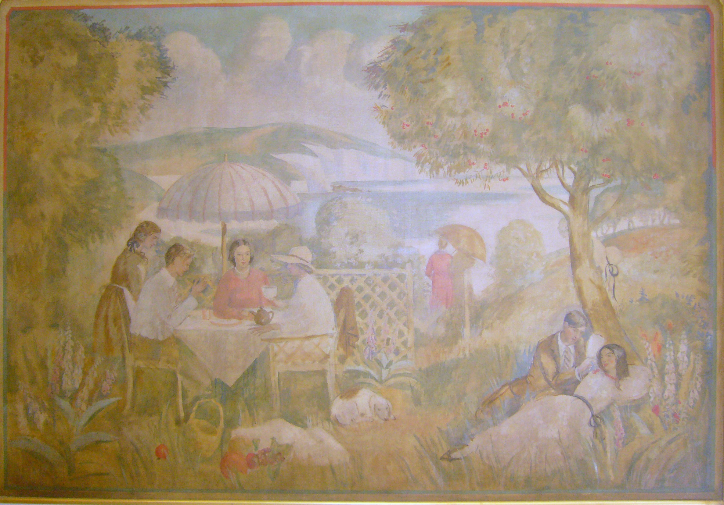 The new outpatient department of the Royal National Orthopaedic Hospital in Bolsover Street, central London was opened In 1927. Mounted on the waiting room's (hall) wall were a remarkable series of murals painted by Katharine Anne (Nan) West, daughter of the hospital’s chairman, Henry West. These images which cover over 90 square metres, bear witness on a grand scale to the prevailing aspiration to restore a social function to art. Source: BMJ 1998;317:1736 One of these works (illustrated here) is the "Summer Theme" Panel. For further information please